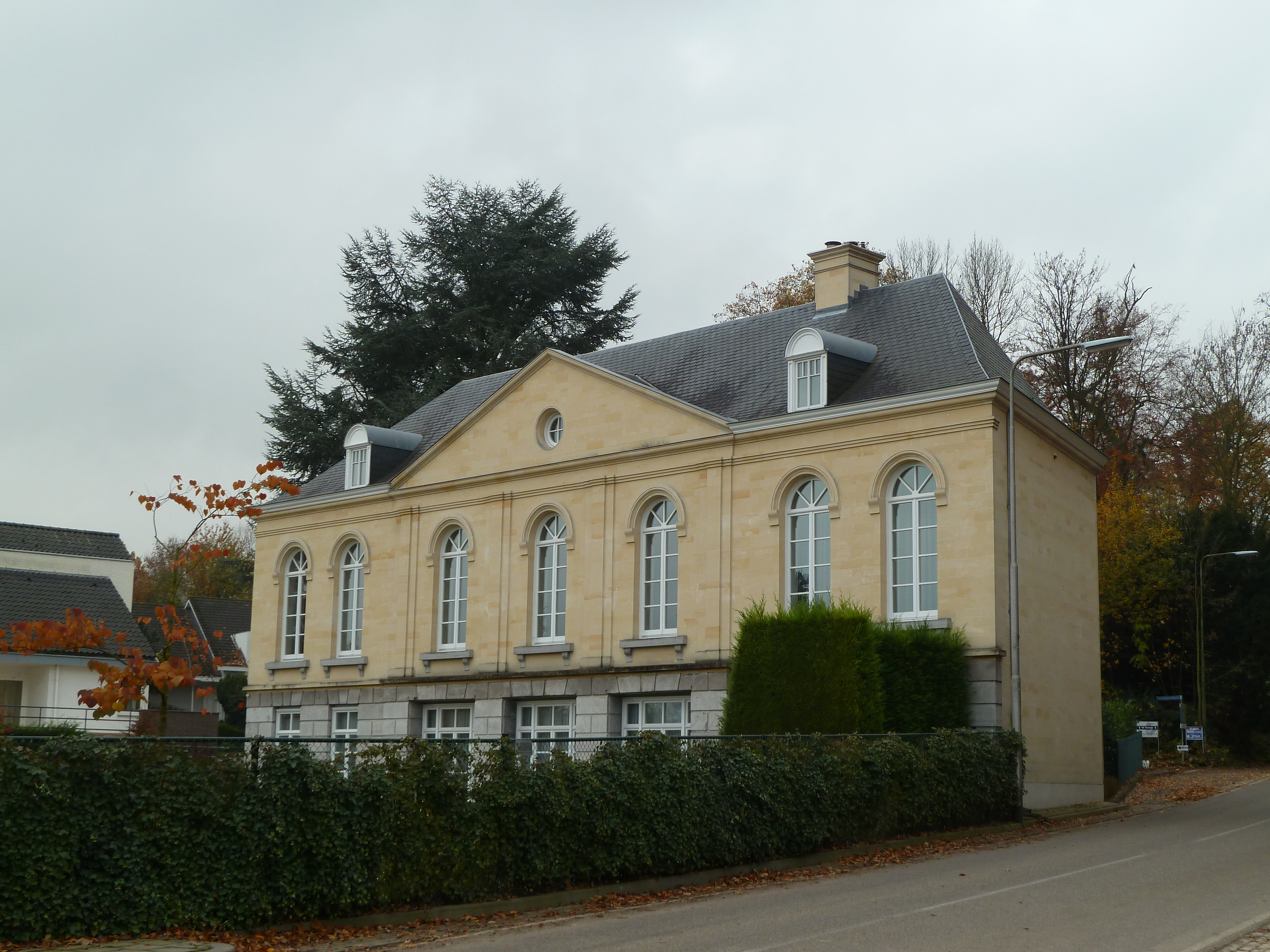 Aalbekerweg 91, Aalbeek, Hulsberg, Limburg, the Netherlands